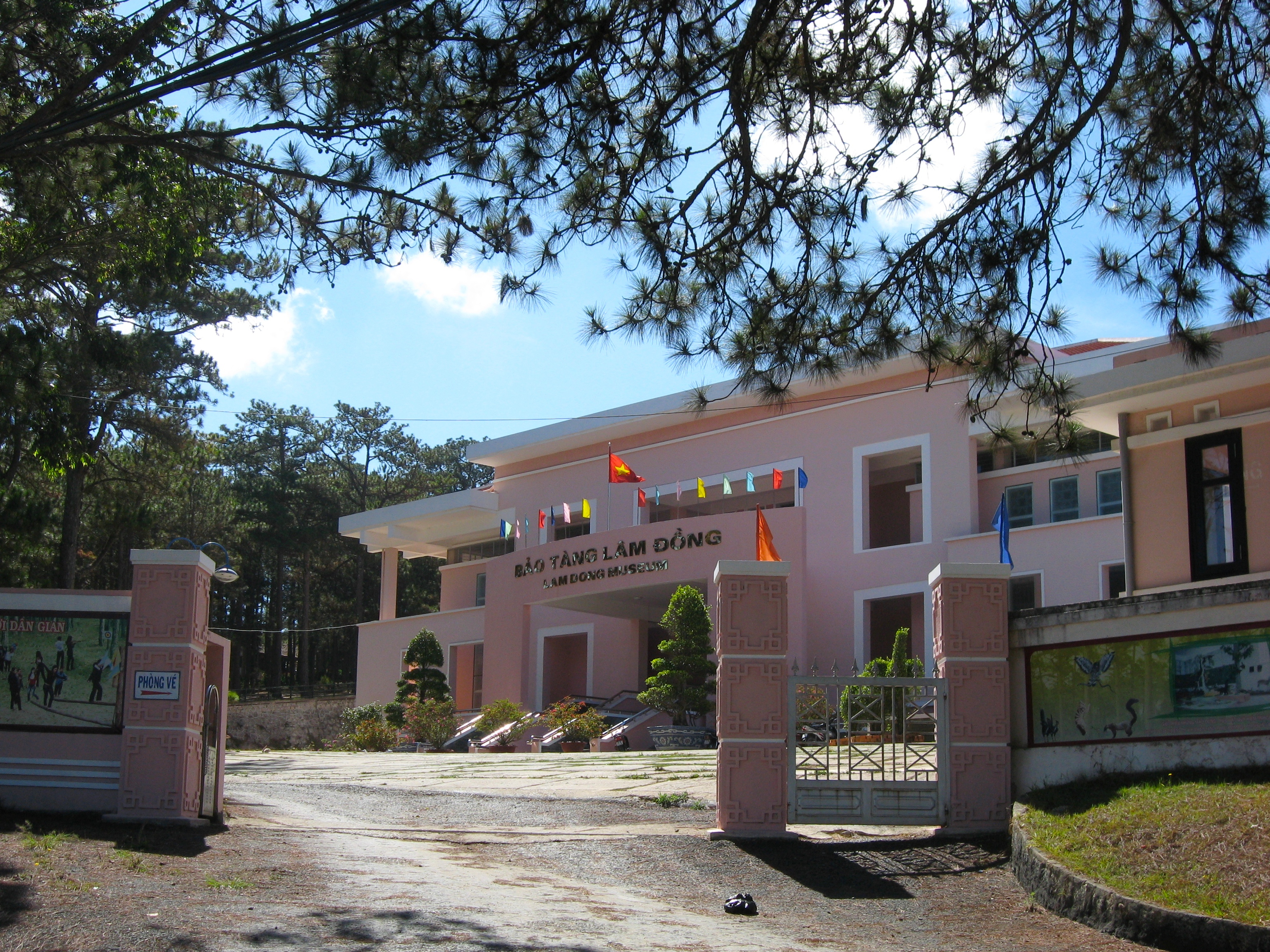 Lam Dong Museum, Da Lat